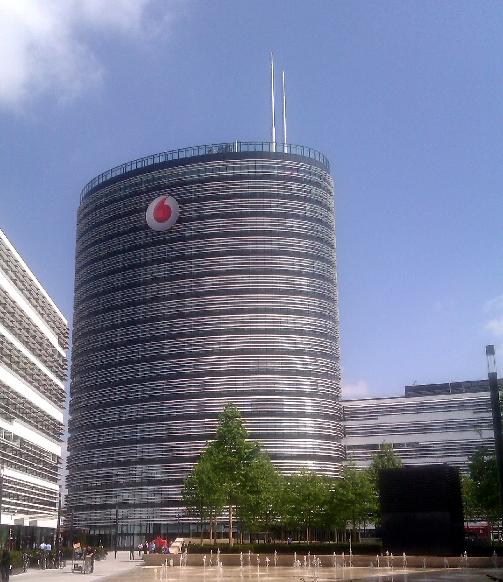 Vodafone German Headquarter